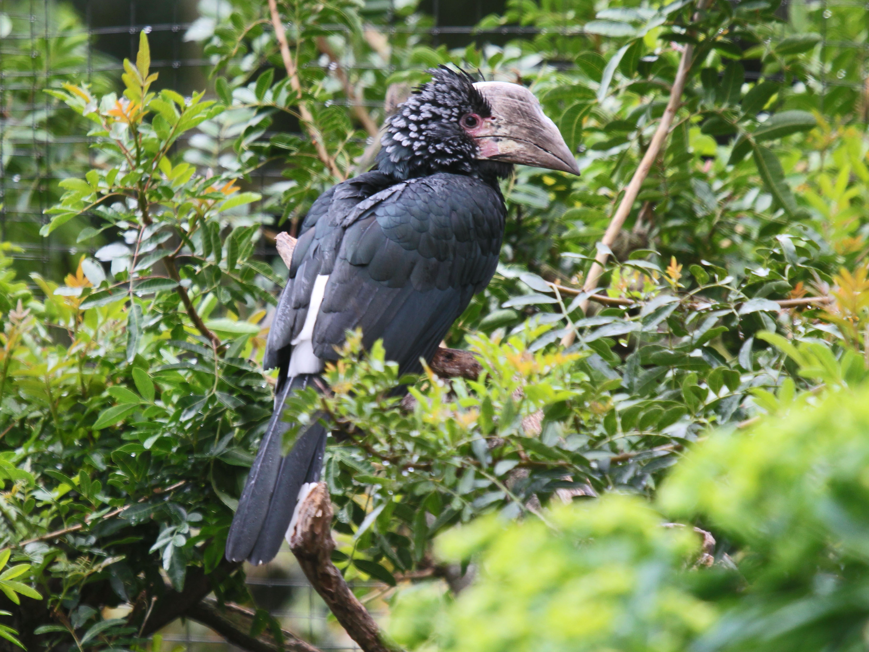 Female Trumpeter Hornbill (Bycanistes bucinator)) - World of Birds, Cape Town, South Africa